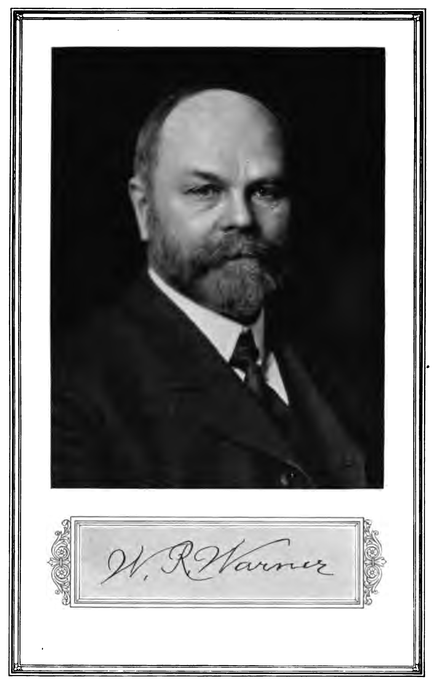 Portrait of Worcester Reed Warner.